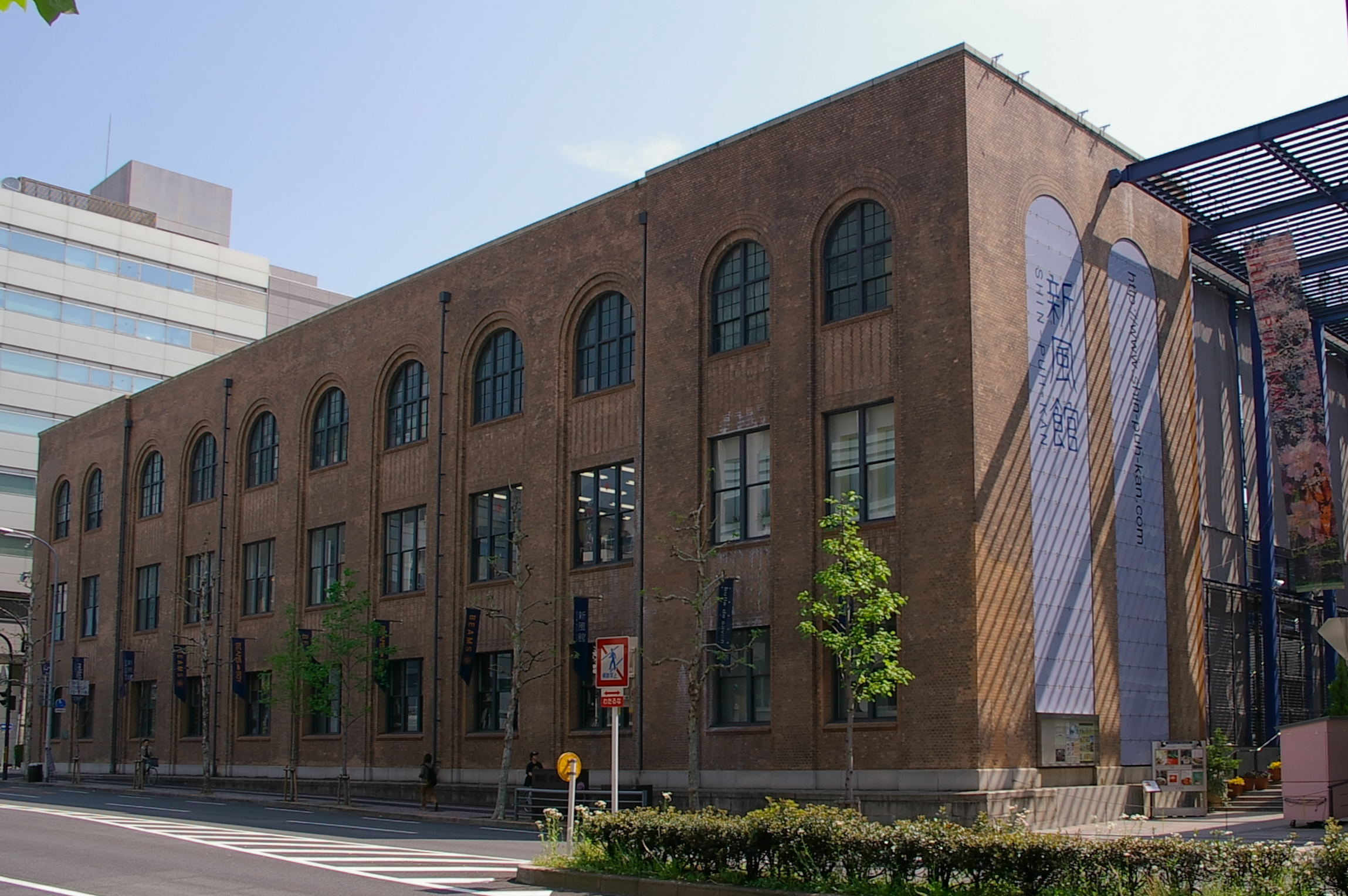 Photograph of Shin-phu-kan, the old Kyoto Central Telephone Office, in Nakagyo-ku, Kyoto, Kyoto Prefecture, Japan.